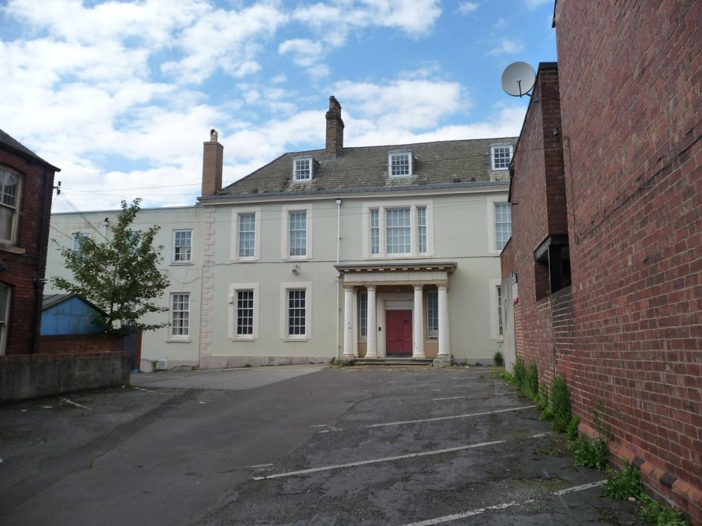 Entrance on south side, Nether Hall, Doncaster